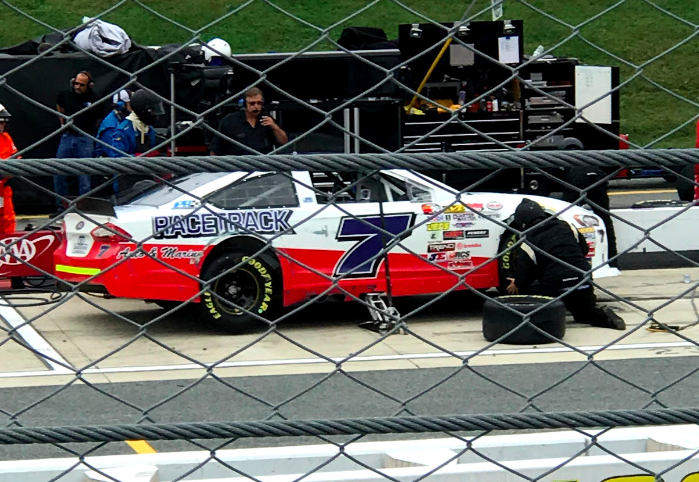 Devin Dodson on pit road at Dover International Speedway in 2018.